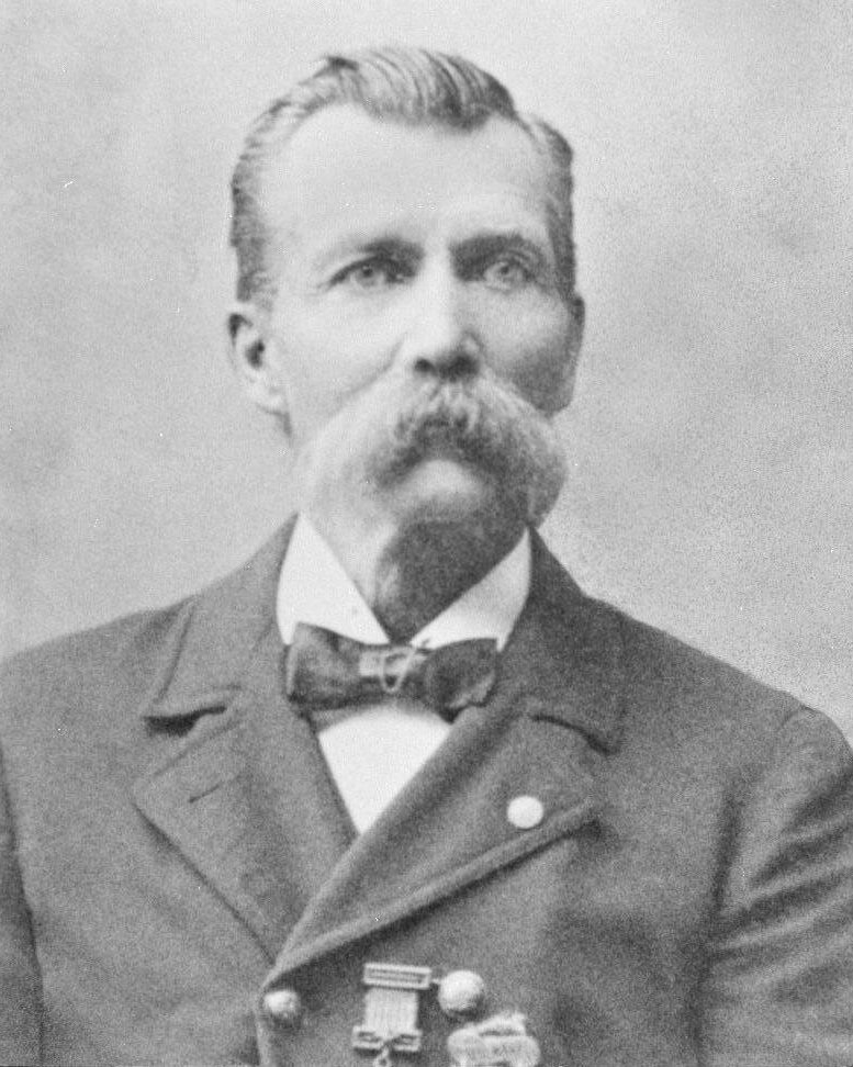 USMC Orderly Sergeant MoH winner